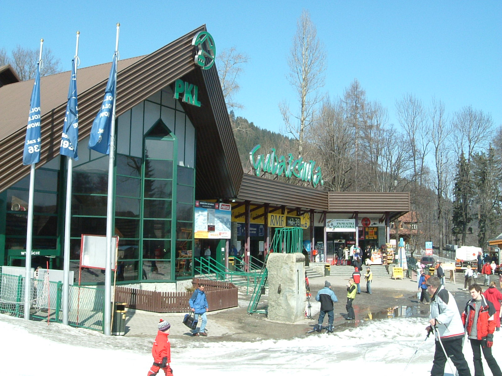 Zakopane - Gubalowka Hill Funicular entrance